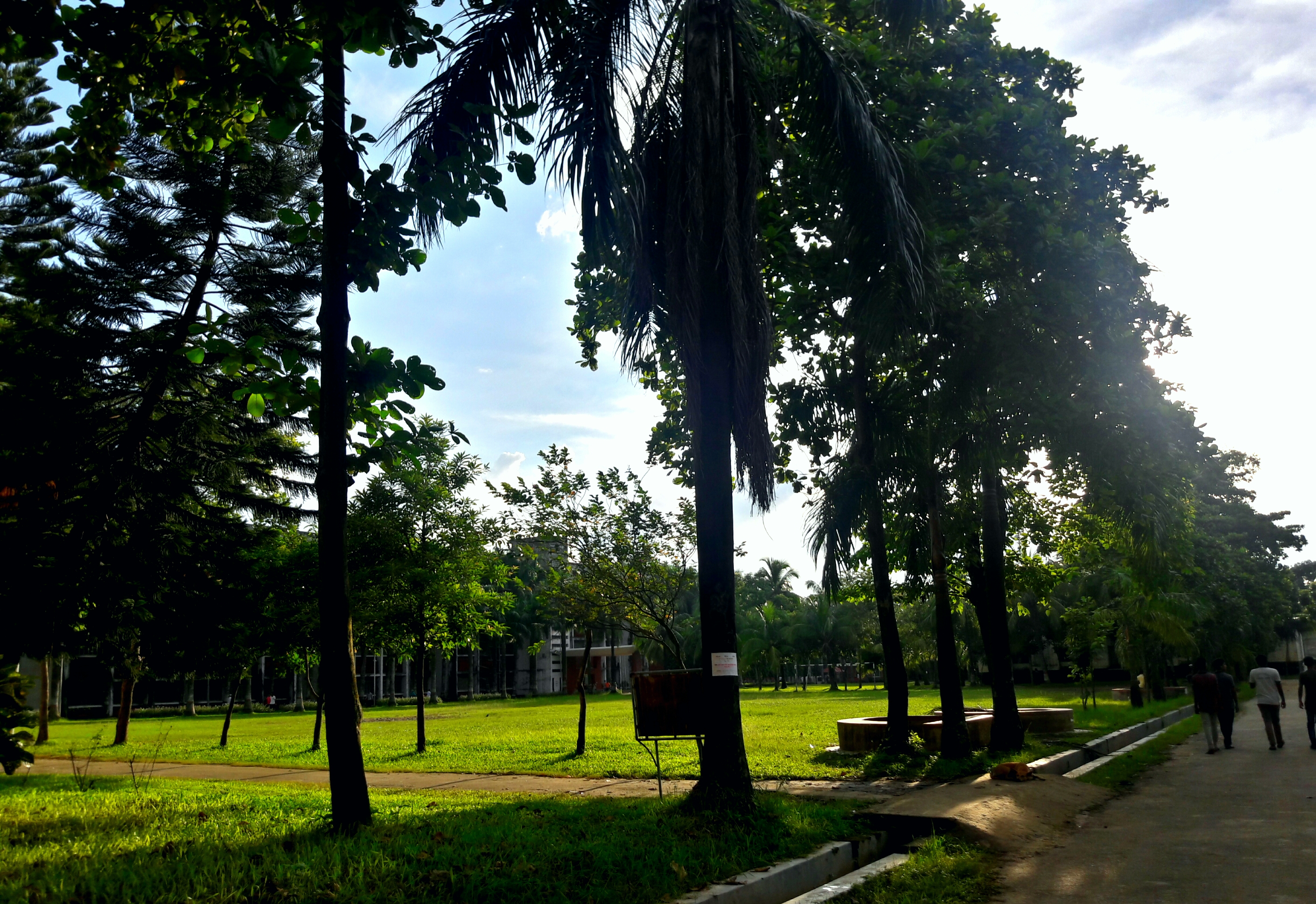 Dhaka University of Engineering Technology Field